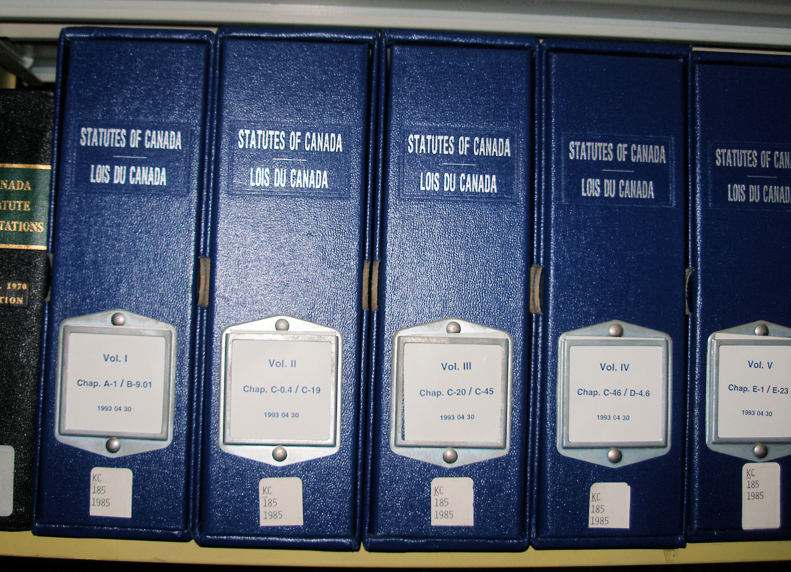 Several volumes of the Statutes of Canada on a shelf at the law library of UC Berkeley School of Law.